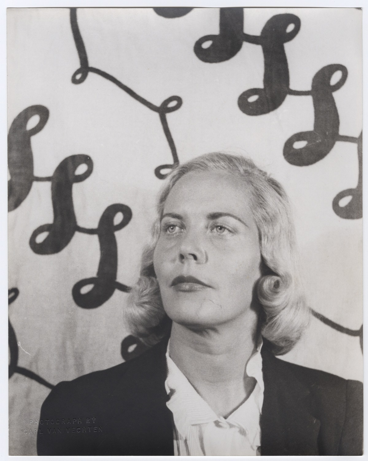 Kay Halle. Photograph by Carl Van Vechten